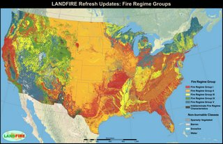 Depicts modeled historic fire regimes in the coterminous United States. The 5 classes are defined as follows: Fire Regime I: 0 to 35 year frequency, low to mixed severity. Fire Regime II: 0 to 35 year frequency, replacement severity. Fire Regime III: 35 to 200 year frequency, low to mixed severity. Fire Regime IV: 35 to 200 year frequency, replacement severity. Fire Regime V: 200+ year frequency, any severity.